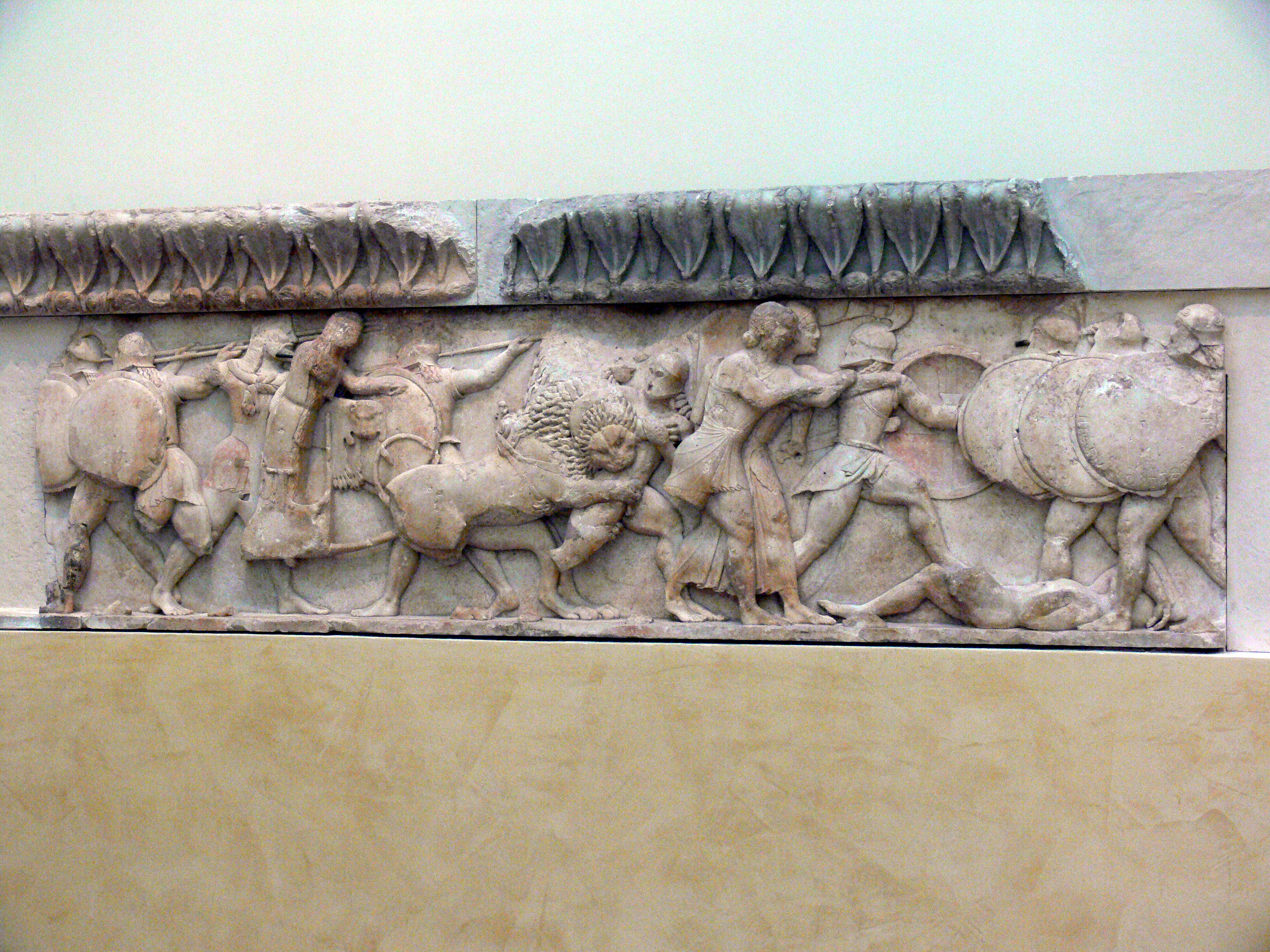 Ancient Greek Relief, Archaeological Museum of Delphi Sifnian treasury